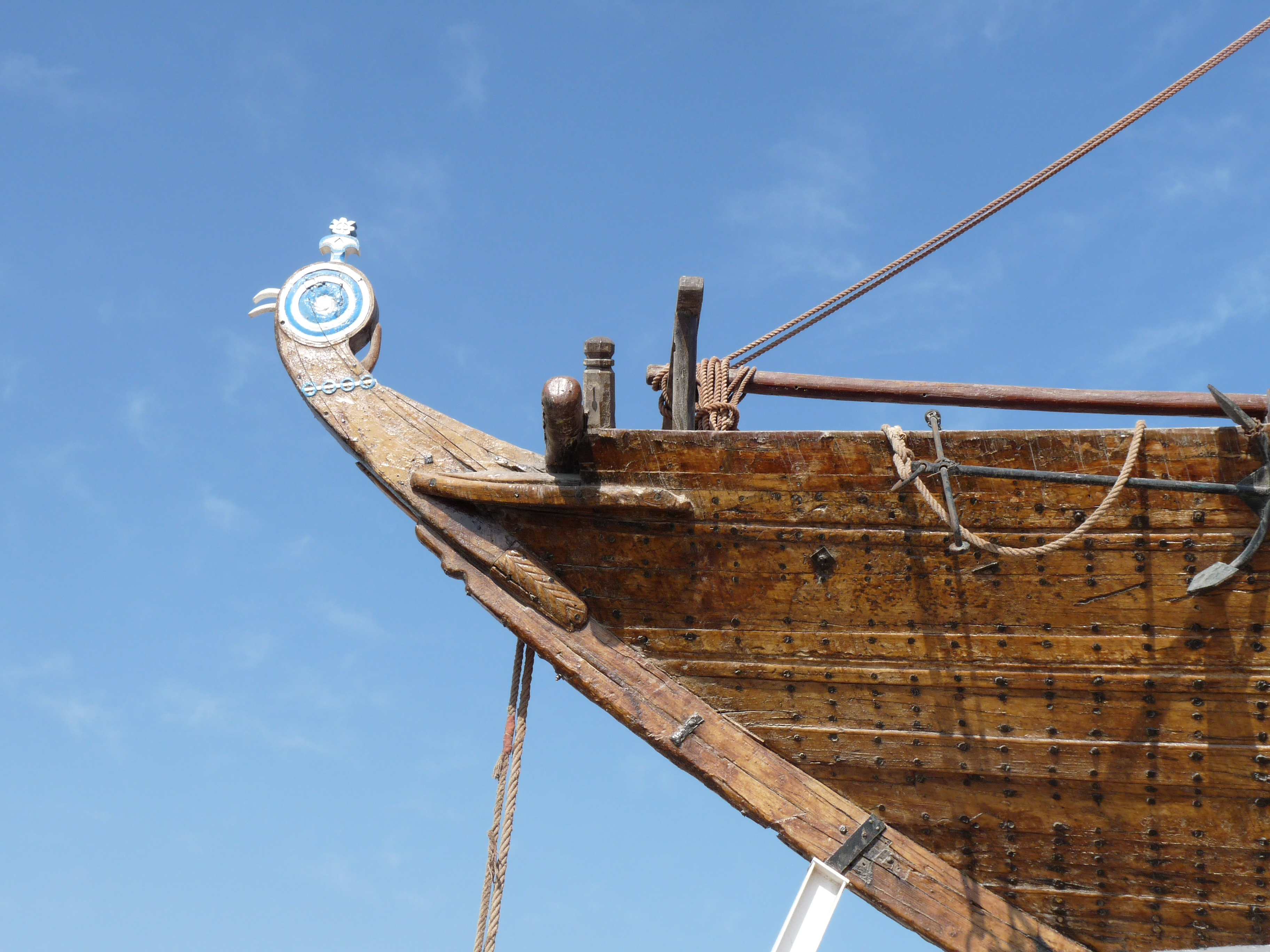 Dhow in Sur (Oman)